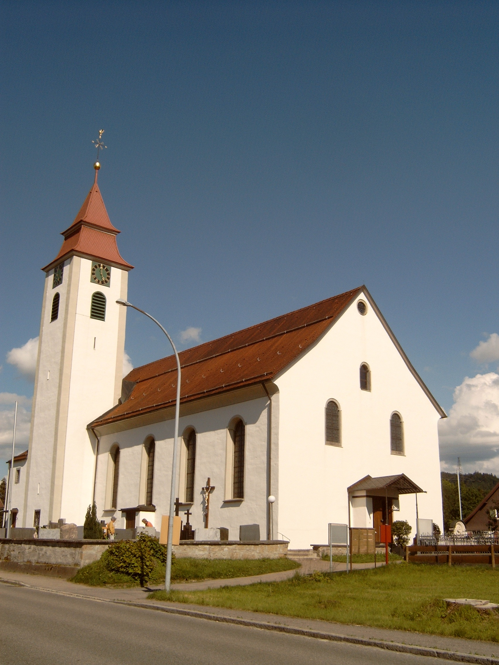 Niederstaufen, church